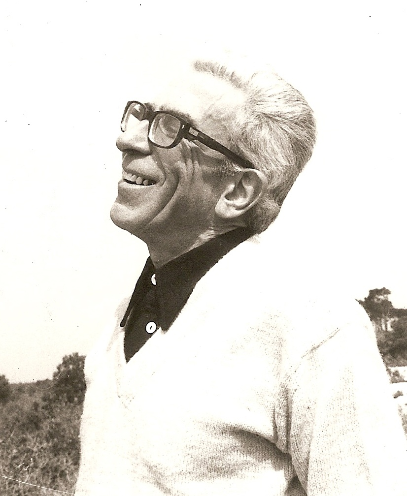 André Bourguignon circa 1975